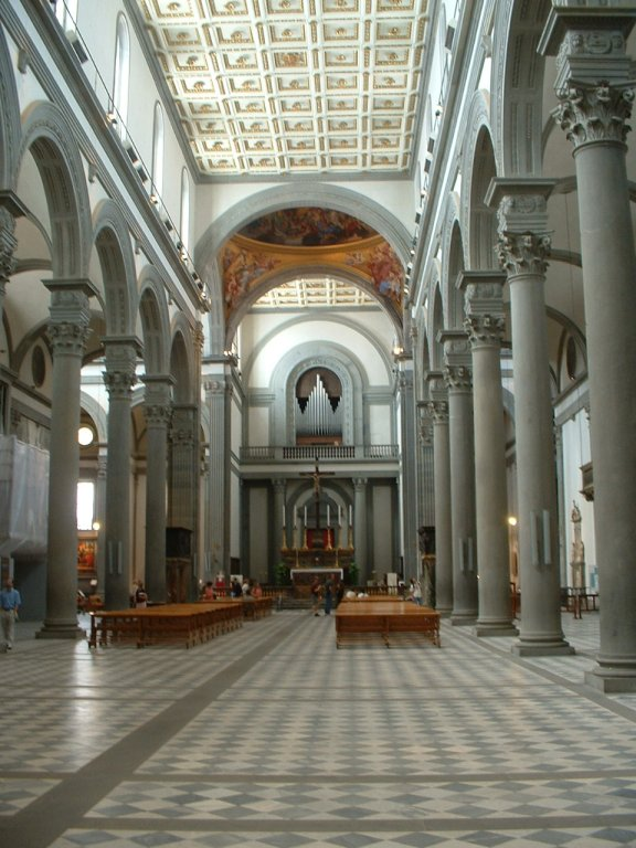 Interior of the Basilica di San Lorenzo di Firenze, Florence, looking towards the high altar. Photo taken by Necrothesp, 20 May 2004.